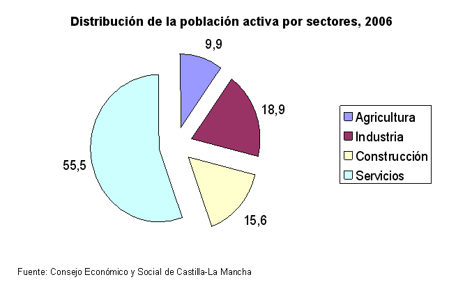 Distribution of employment by sectors, 2006.